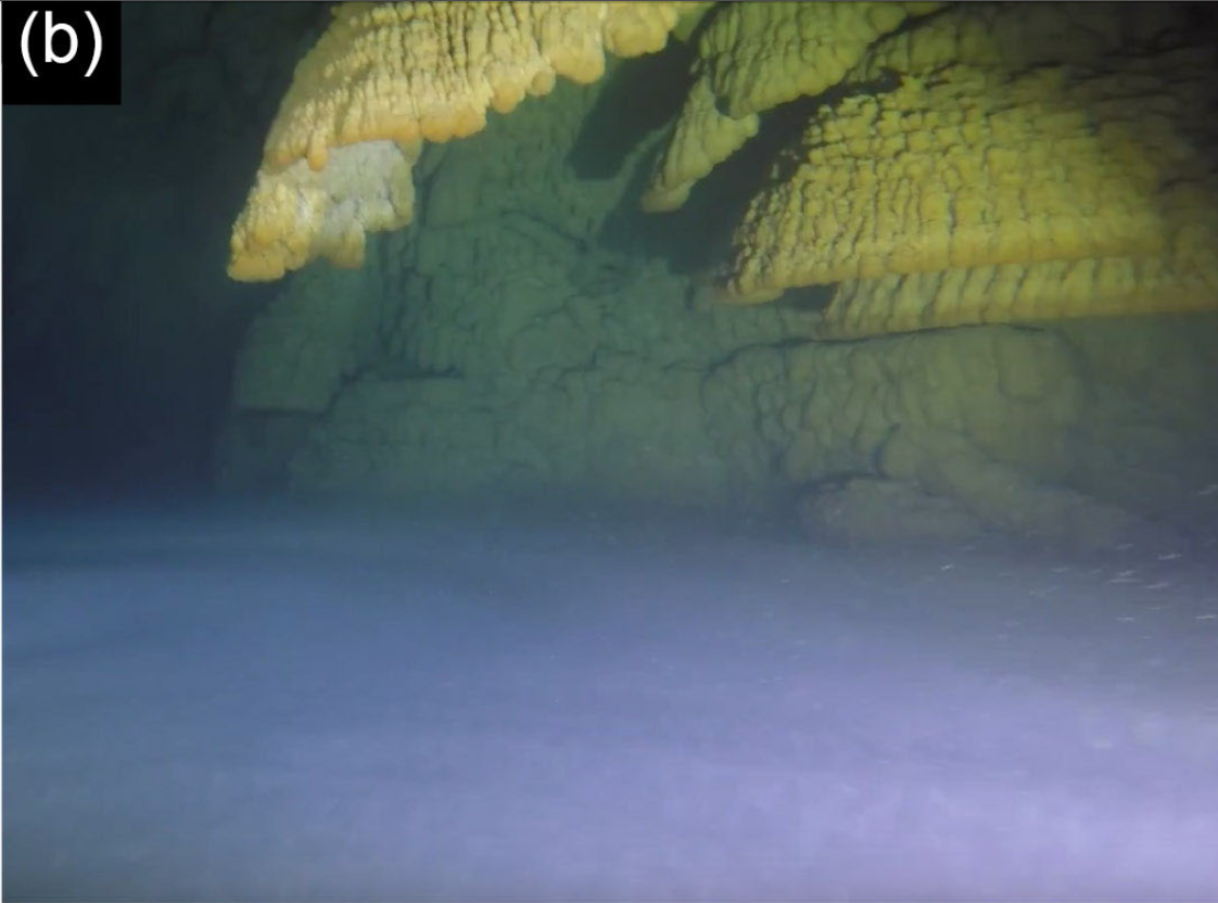 Turbid layer of water in El Zapote cenote